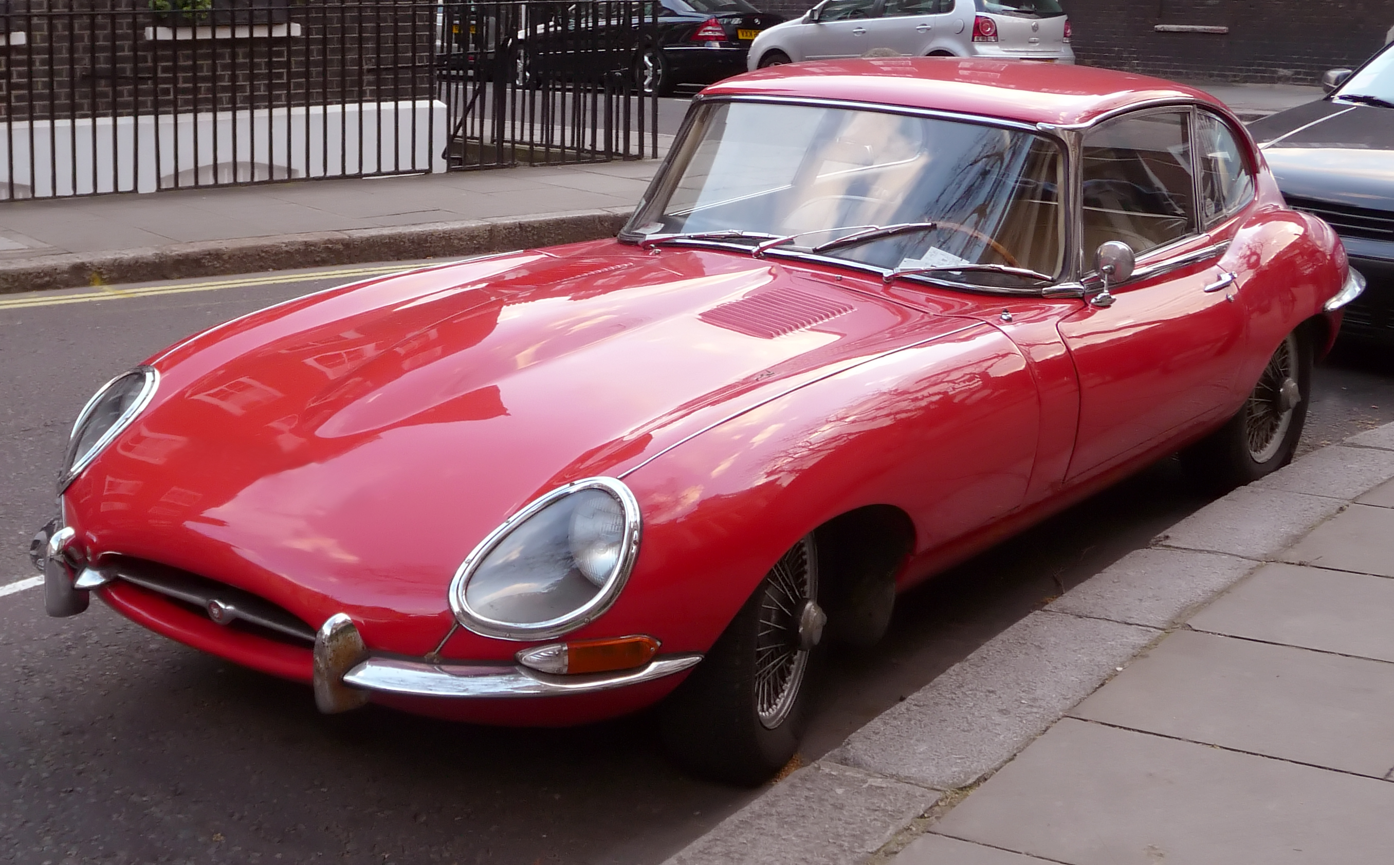 Red Jaguar E-Type